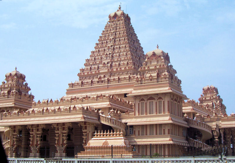 Chattarpur Hindu Temple in Delhi, India